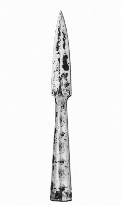 Spearhead of a Germanic Framea type javelin, approx. 24 cm (9.5″), 1st trough 5th century (original description). Replica.